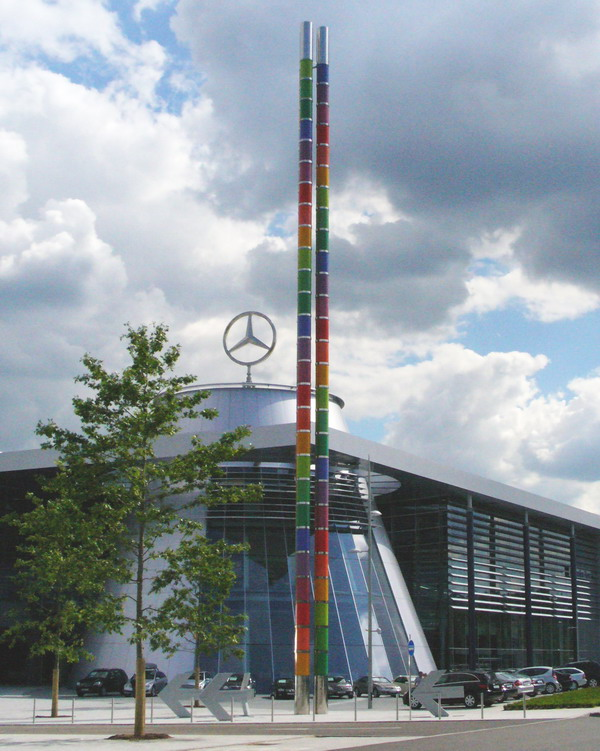 Mercedes-Benz-Center Stuttgart Max Bill: 1989 bildsäulen - dreiergruppe (statues - group of three) are 32 meters high and like a colored logo linking the sky